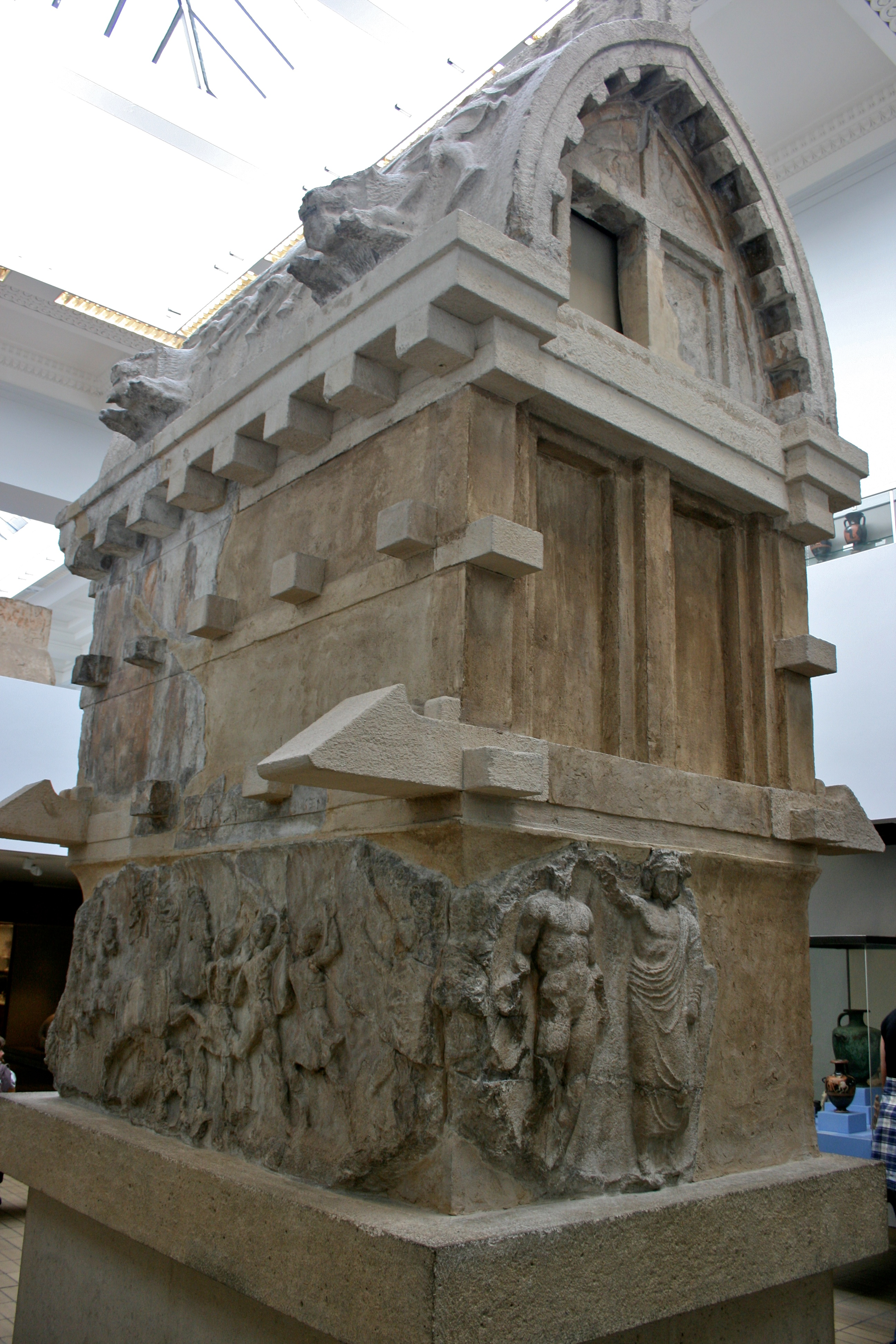 Tomb of Payava, north (right) and east (left) sides. In the British Museum.